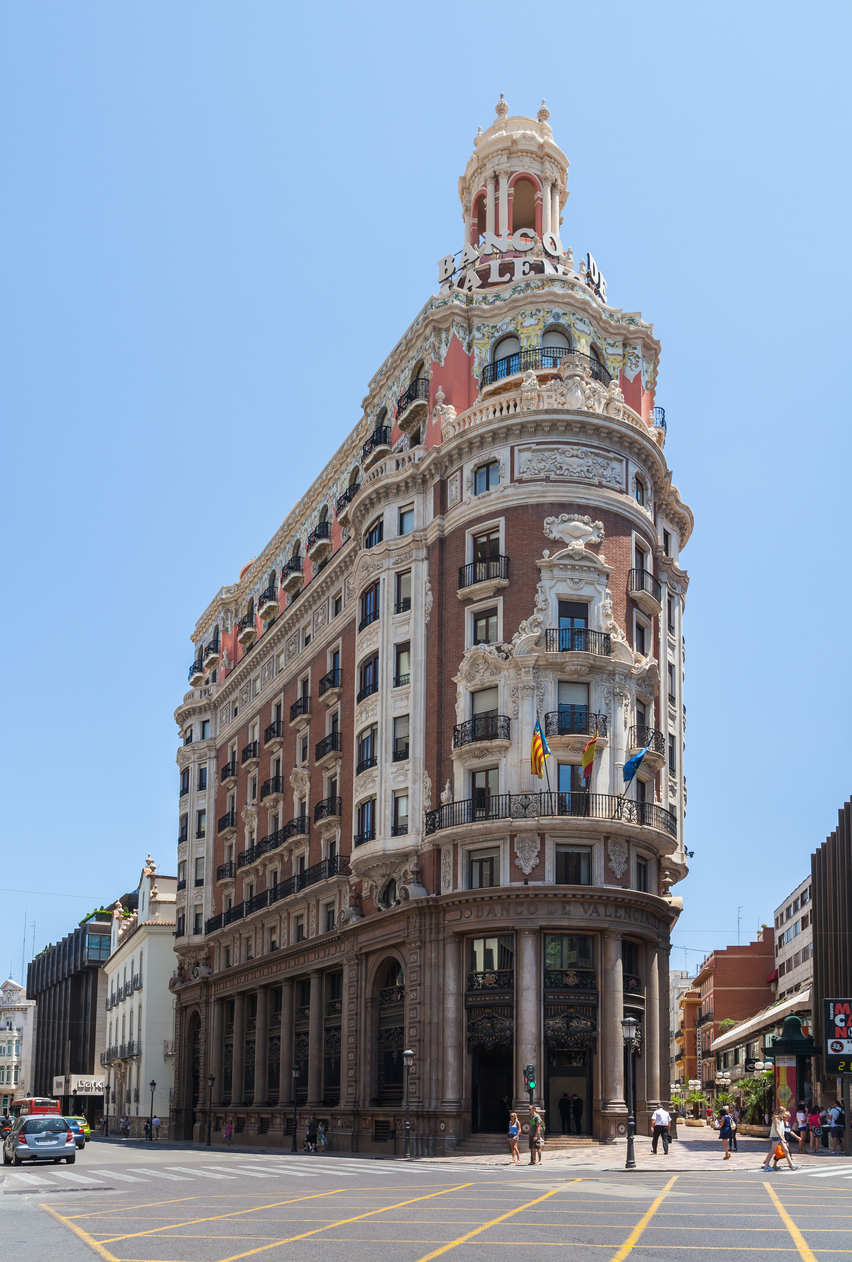 Bank of Valencia, Valencia, Spain.